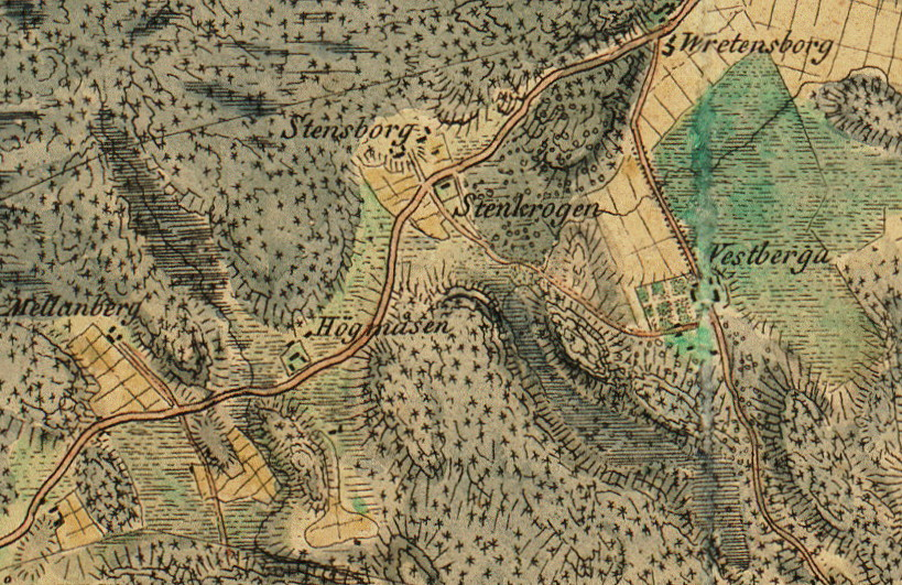 KARTA[Stockholm med omgivningar 1817] Karta öfver Belägenheten omkring Stockholm / utgifven af W. M. Carpelan. Del som visar Västbera gårds ägor.